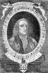 William Tans'ur (1700-1783)